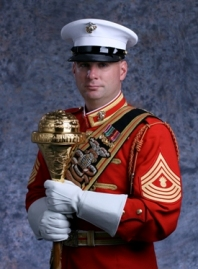 Master Gunnery Sergeant Mark Miller is the twentieth Drum Major of "The Commandant's Own", The United States Marine Drum & Bugle Corps. (Text by USMC)